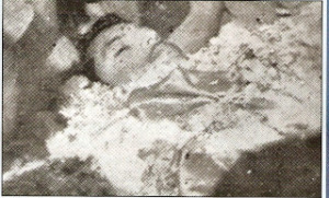 Last photo of Hemu Kalani